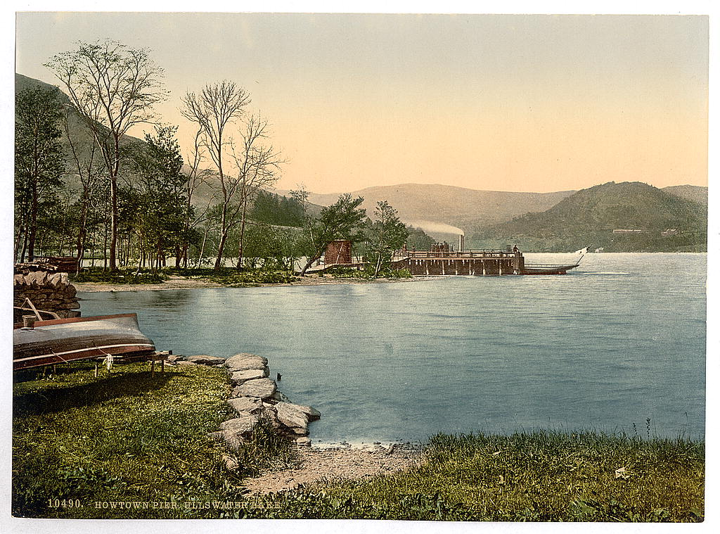 Ullswater, Howtown Pier, Lake District, England [between ca. 1890 and ca. 1900]. 1 photomechanical print : photochrom, color. Notes: Title from the Detroit Publishing Co., Catalogue J--foreign section, Detroit, Mich. : Detroit Publishing Company, 1905. Print no. "10490". Forms part of: Views of the British Isles, in the Photochrom print collection. Subjects: England--Ullswater, Lake. Format: Photochrom prints--Color--1890-1900. Repository: Library of Congress, Prints and Photographs Division, Washington, D.C. 20540 USA, Part Of: Views of the British Isles (DLC) 2002696059 More information about the Photochrom Print Collection is available at Higher resolution image is available (Persistent URL): Call Number: LOT 13415, no. 534 [item]